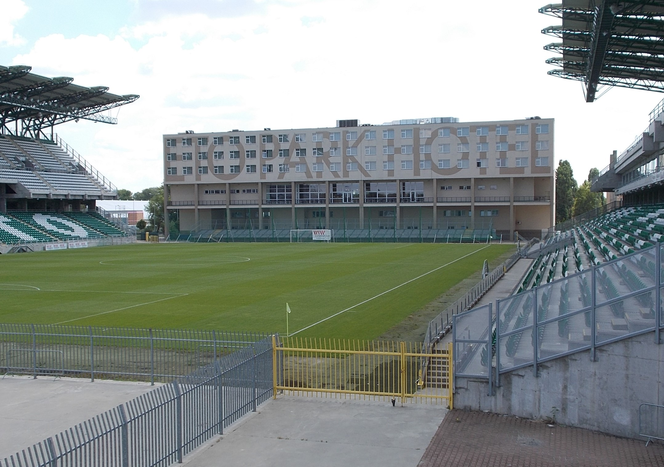 ETO Park stadium (2008). - Nagysándor József street, Gyárváros neighborhood, Győr, Győr-Moson-Sopron County, Hungary.